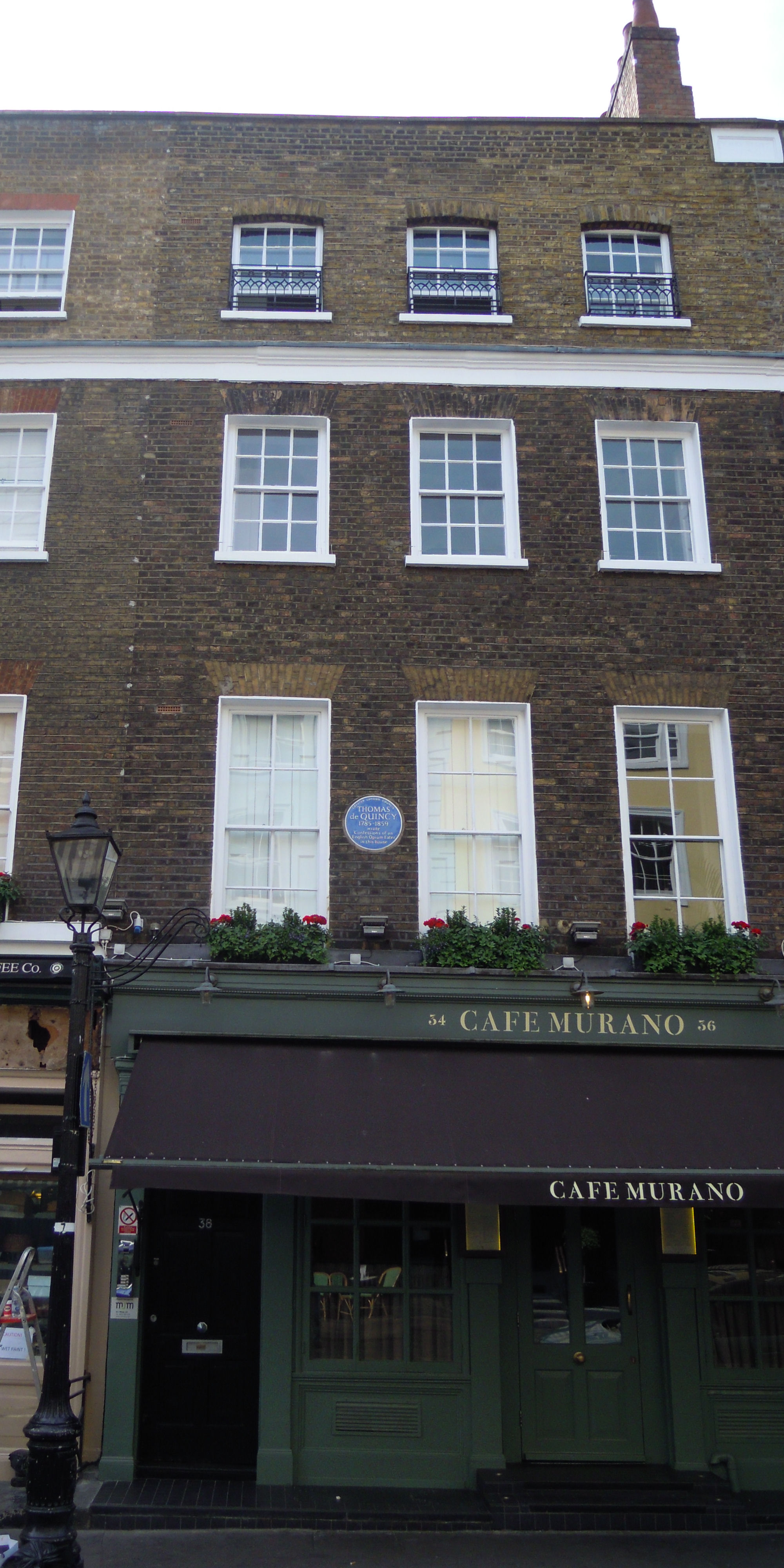 36 Tavistock Street in Covent Garden where Thomas De Quincey wrote Confessions of an English Opium-Eater